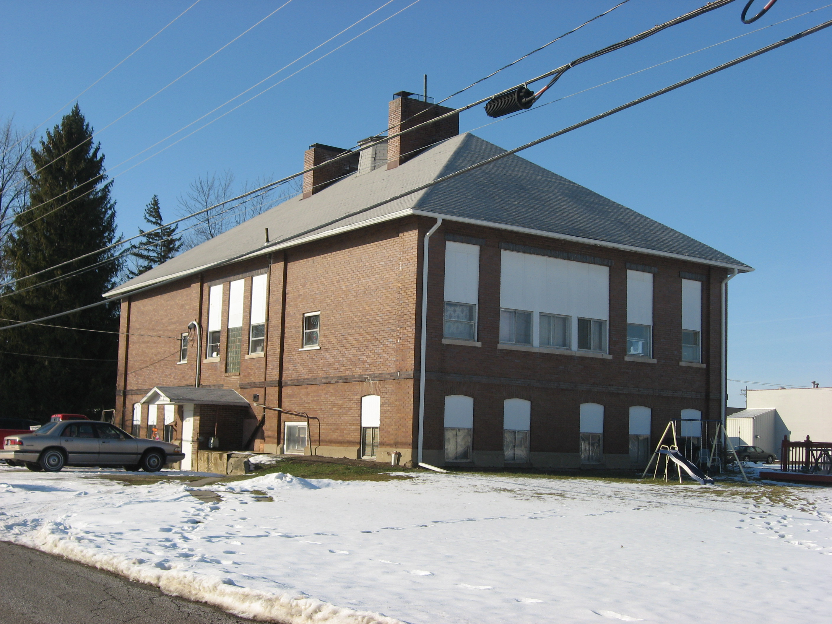 Rear and eastern side of the Keyser Township School 8, located on the northern side of Quincy Street in far northeastern Garrett, Indiana, United States. Built in 1914, it is listed on the National Register of Historic Places.